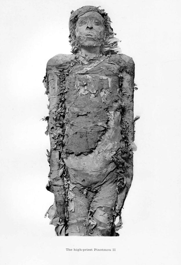 Mummy of Pinedjem II, son of Menkheperre, High Priest of Amun during the 21st Dynasty